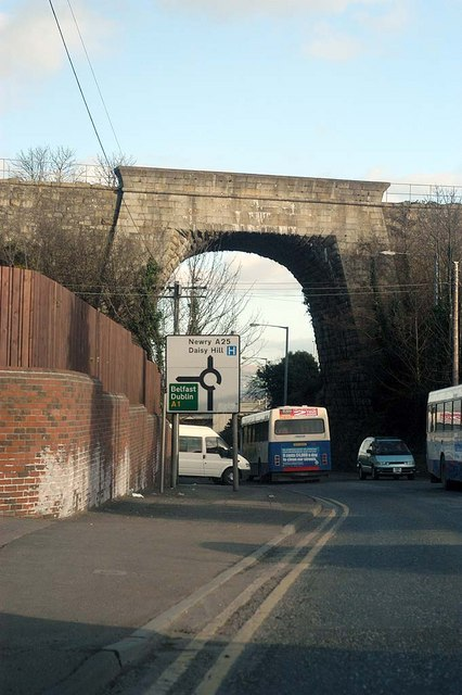 Egyptian Arch Approaching the Egyptian Arch from Bessbrook. The red brick wall marks the entrance/exit to Newry Station. The Egyptian Arch carries the Belfast to Dublin mainline across the A25 road to Newry. Belfast is to the left, and Dublin to the right.